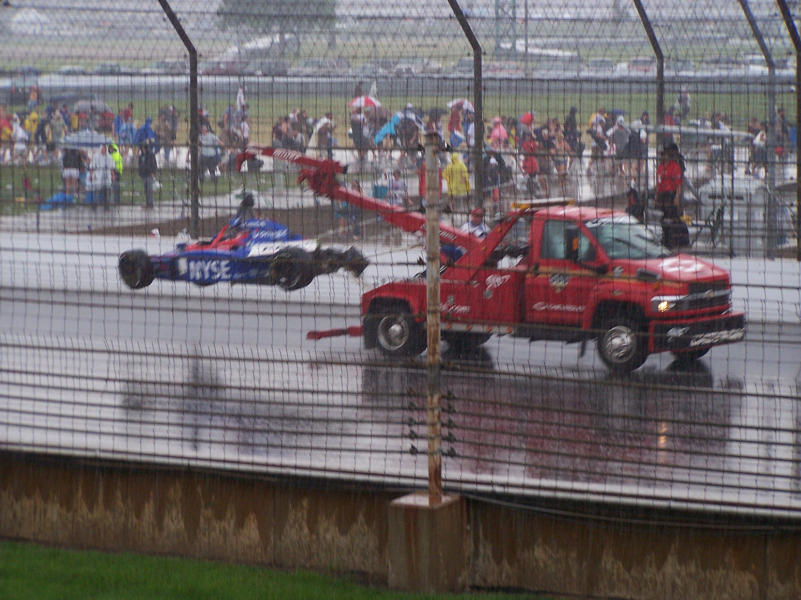 Marco Andretti's car after a devastating crash with Dan Wheldon on lap 163.